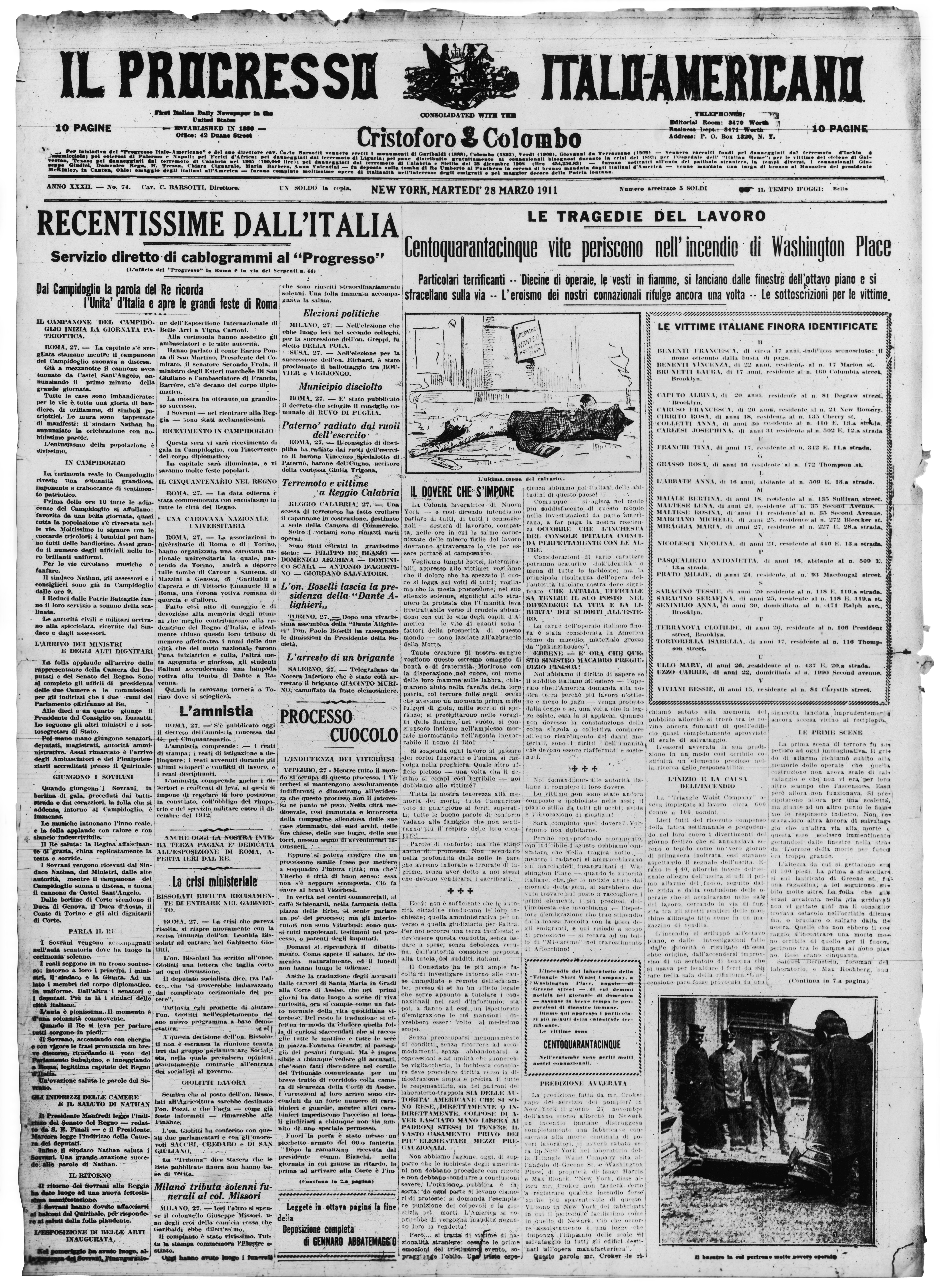 Title: Le tragedie del lavoro Abstract/medium: 1 print : letterpress.